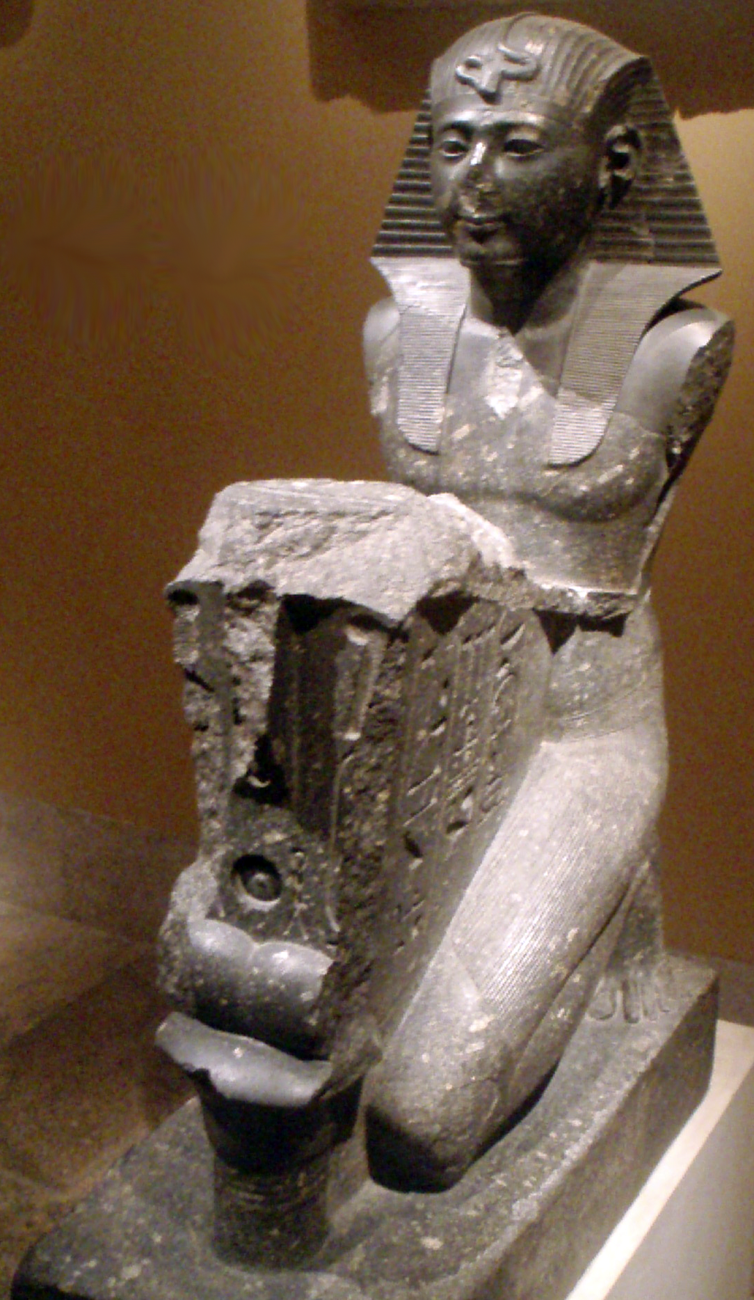 Close-up of the kneeling statue of pharaoh Seti I, from the 19th dynasty, circa 1294-1279 B.C.